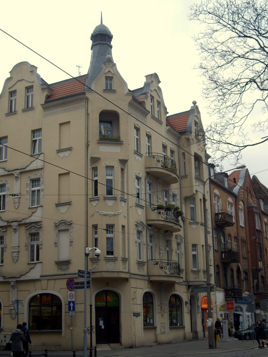 Strzalkowskiego / Dabrowskiego 39, Poznan, arch. Oskar Hoffmann